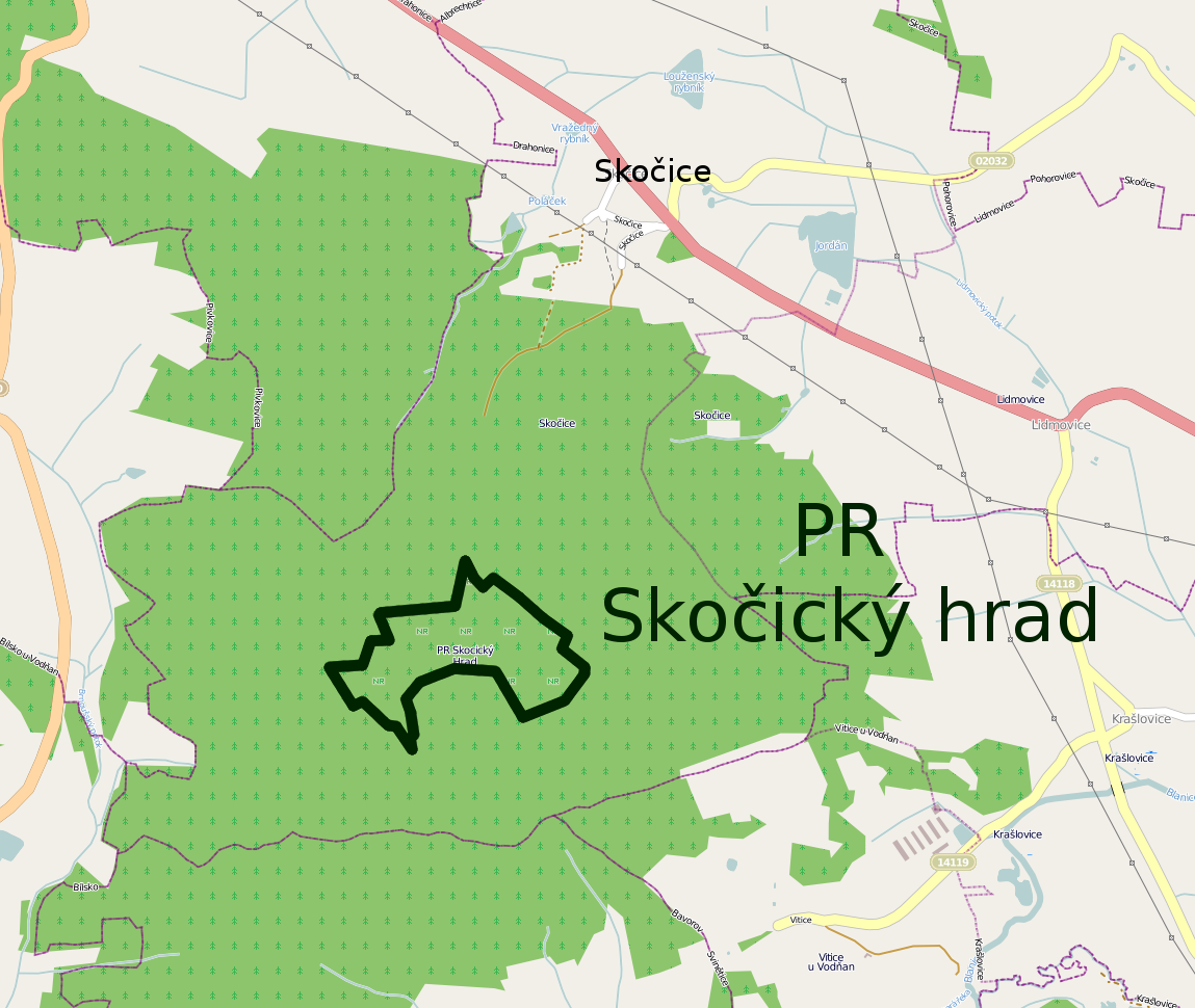 Map of nature reserve Skočický hrad